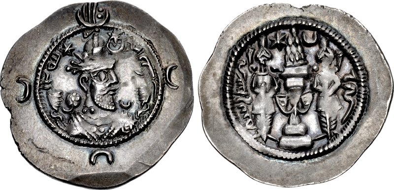 Coin of the Sasanian king Khosrow I Anushirvan, Veh-Andiyōk-Šābuhr (Gundeshapur) mint.